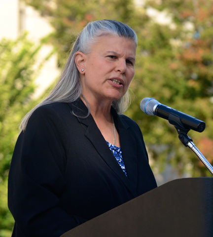 Jamie Rappaport Clark speaking at a rally in 2013